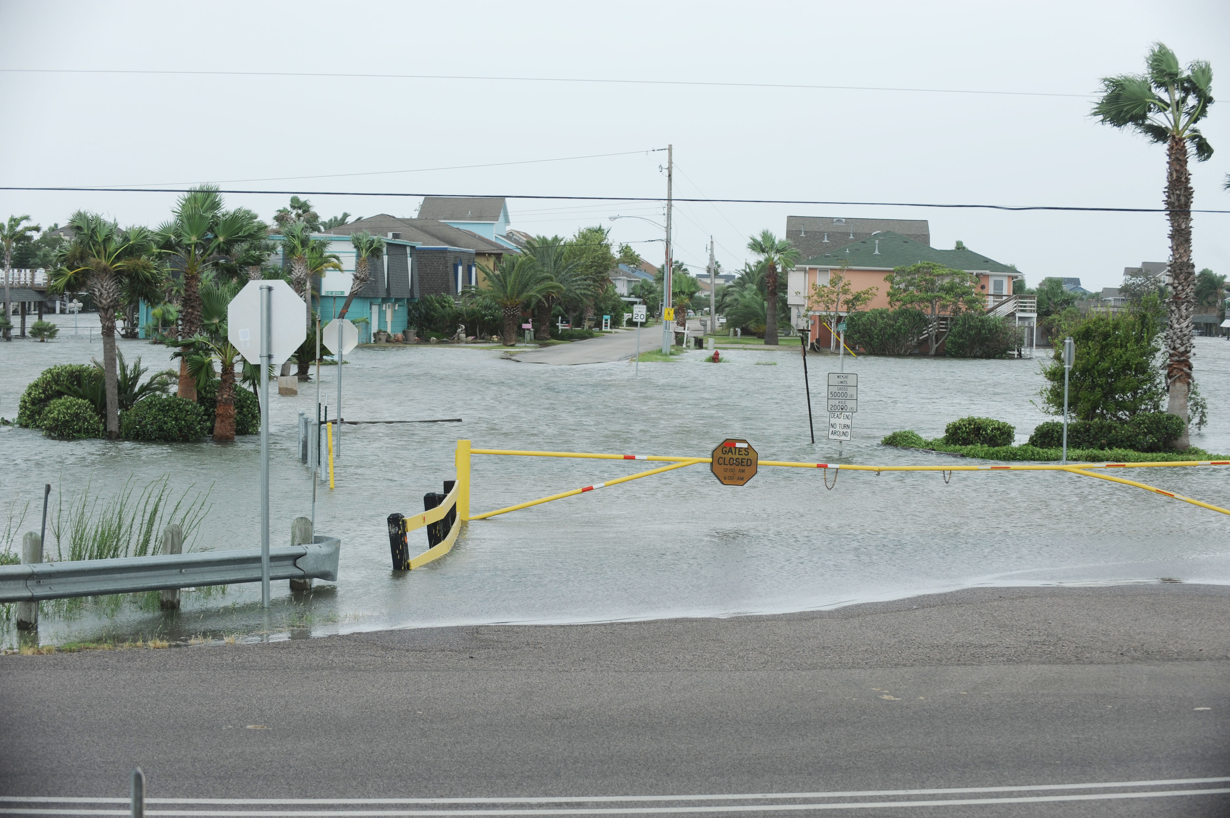 Bayou Vista, TX, September 12, 2008 -- This neighborhood is beginning to flood as waters rise in areas throughout the city as Hurricane Ike approaches the east coast of Texas.